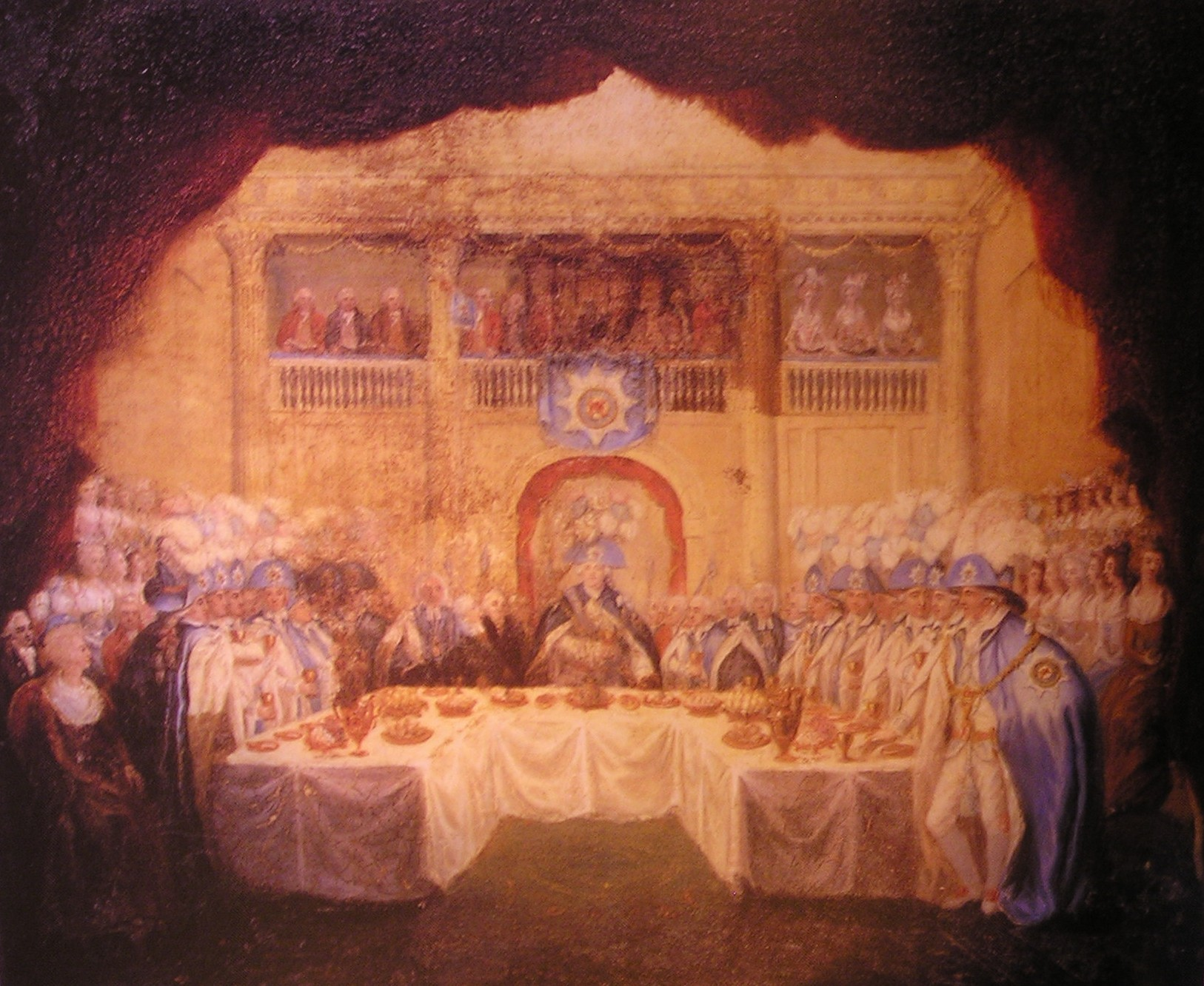 The banquet held in the Great Hall of Dublin Castle for the installation of the first Knights of the Order of St Patrick.